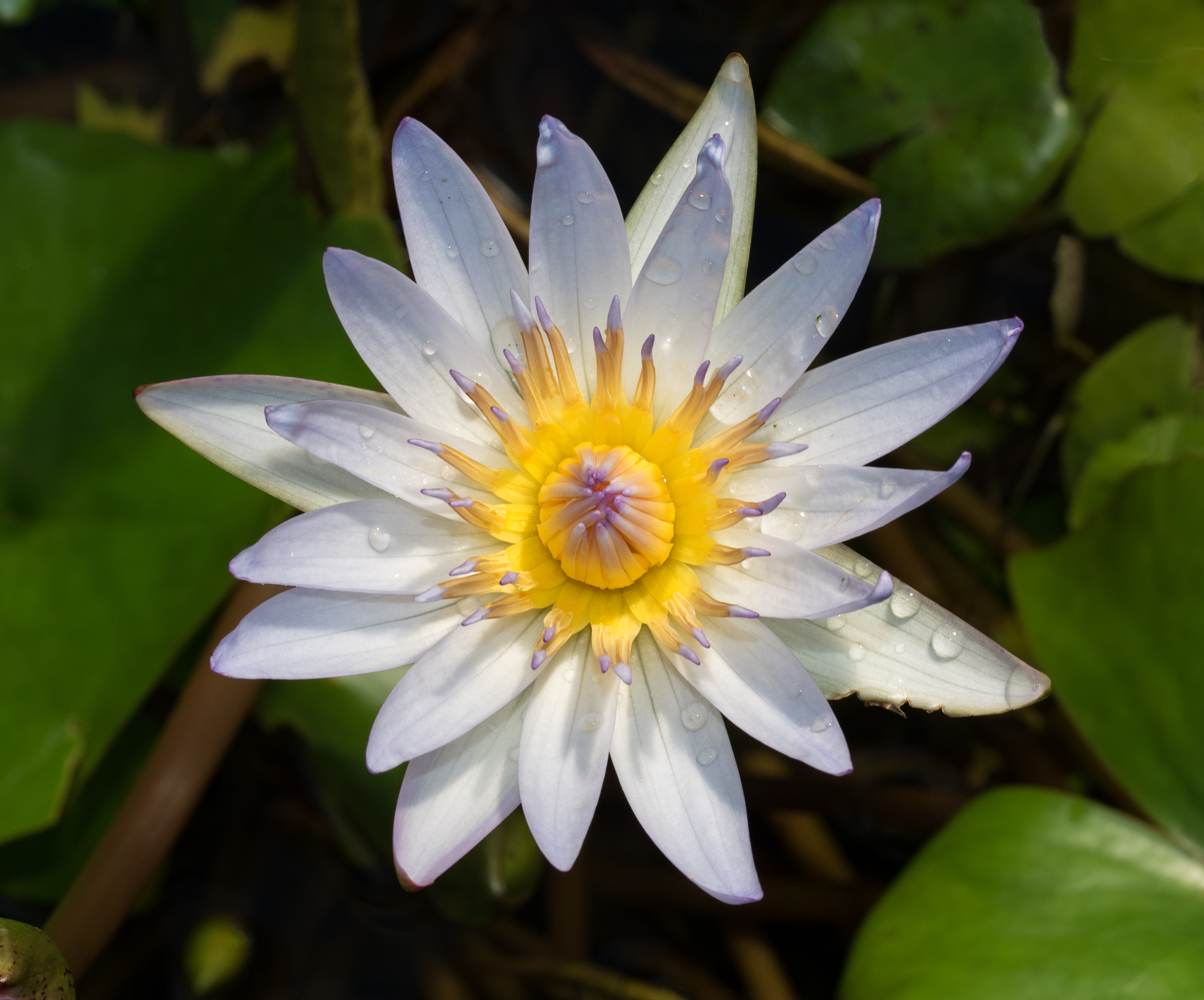 Daubeny's water lily (Nymphaea × daubenyana), Brooklyn Botanic Garden in January 2019